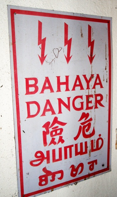 "Danger" Sign - A common signboard in Malaysia.